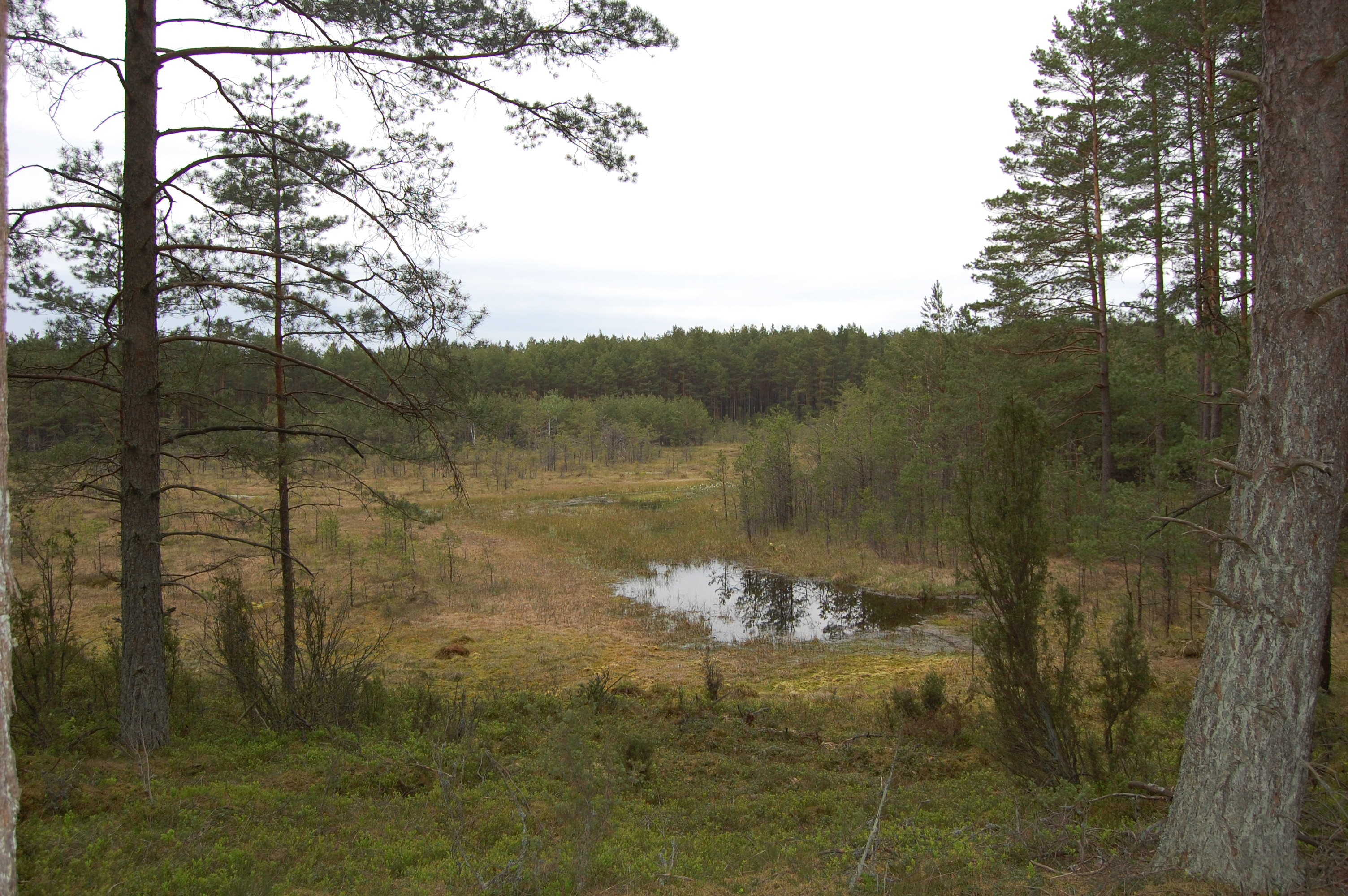 Nature reserve Motowęże